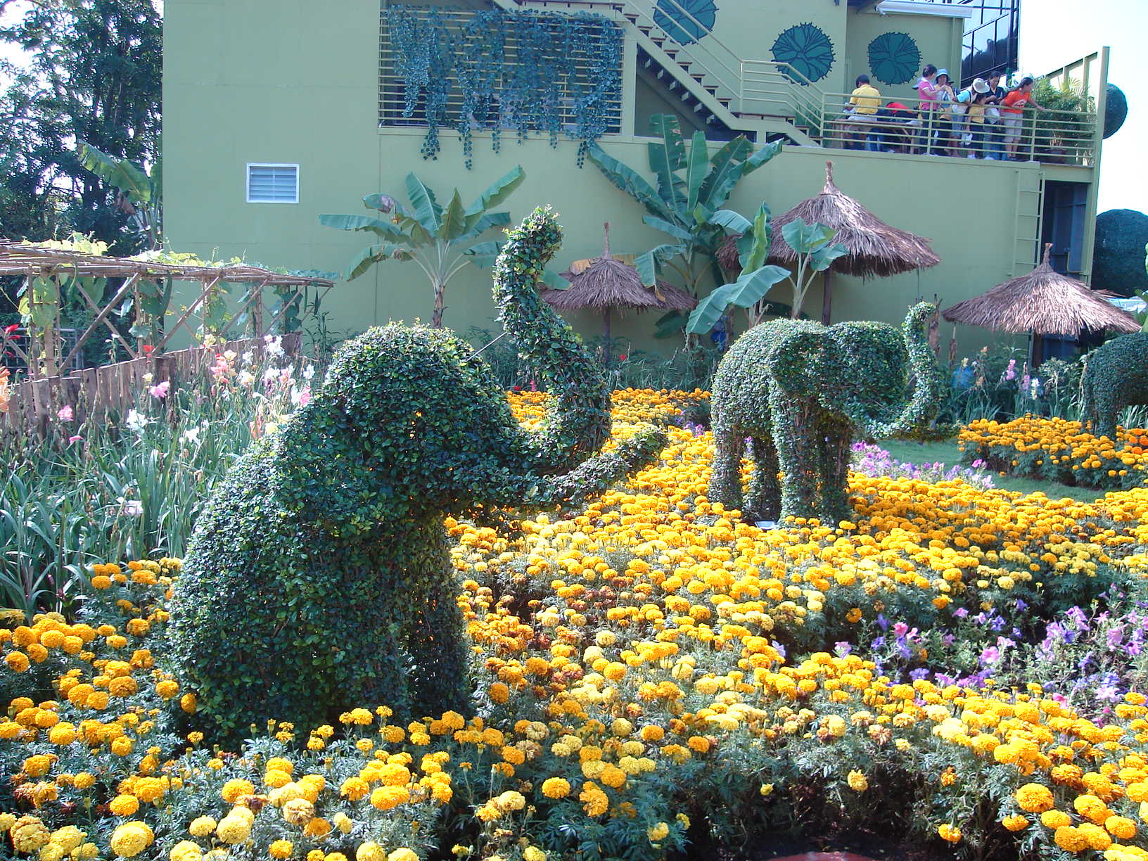 in Royal Flora Expo 2006, Chiangmai, Thailand